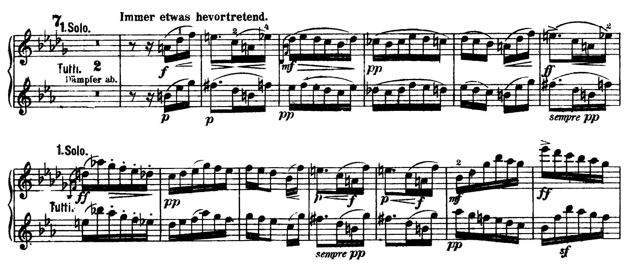 An excerpt from 1st violin of Mahler's Symphony No.4 in G, 2nd movement. The solo violin plays in scordatura while the tutti plays with normal tuning. However they sound the same pitch.